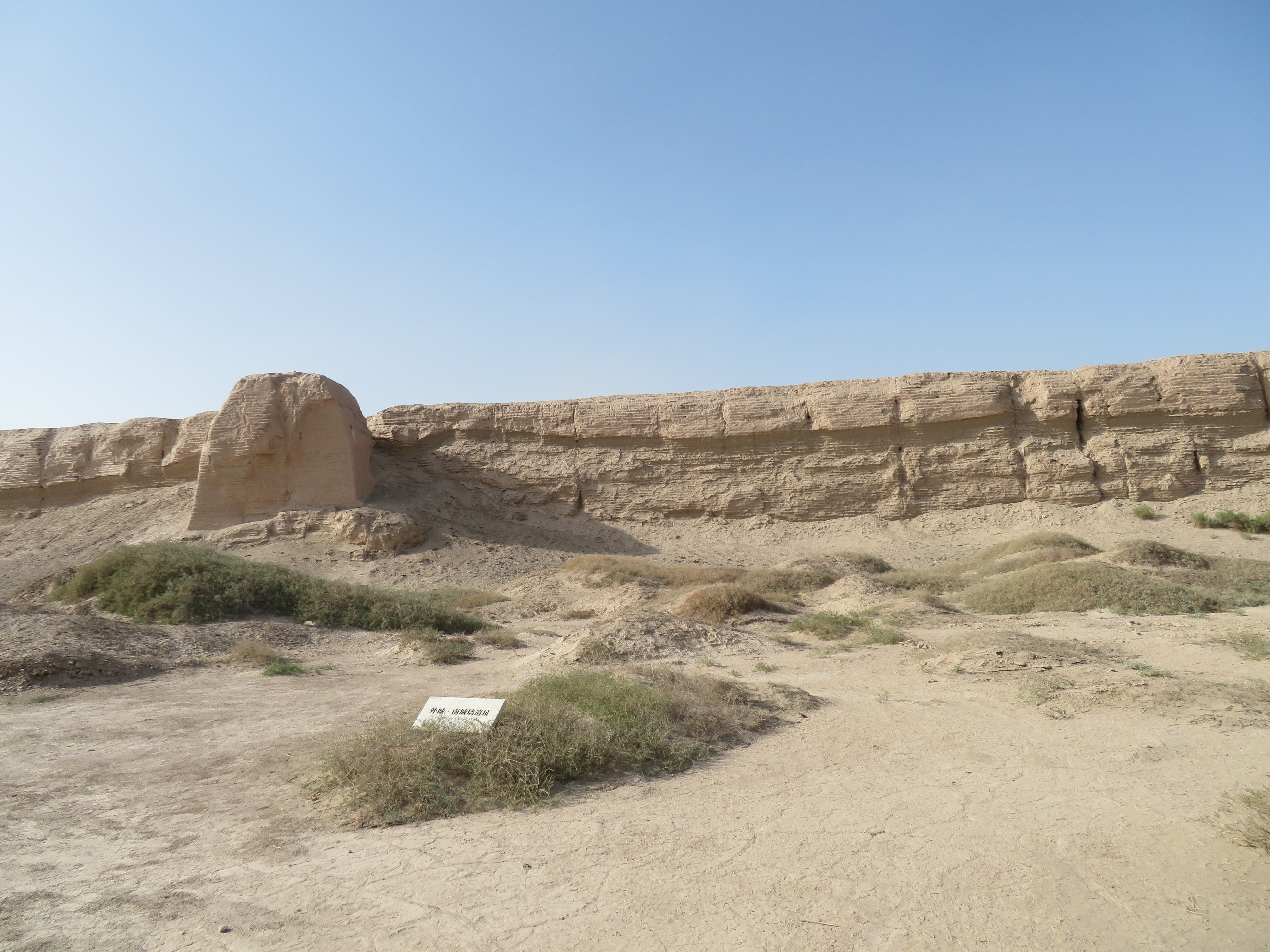 Suoyang City Ruins: outer wall - south section